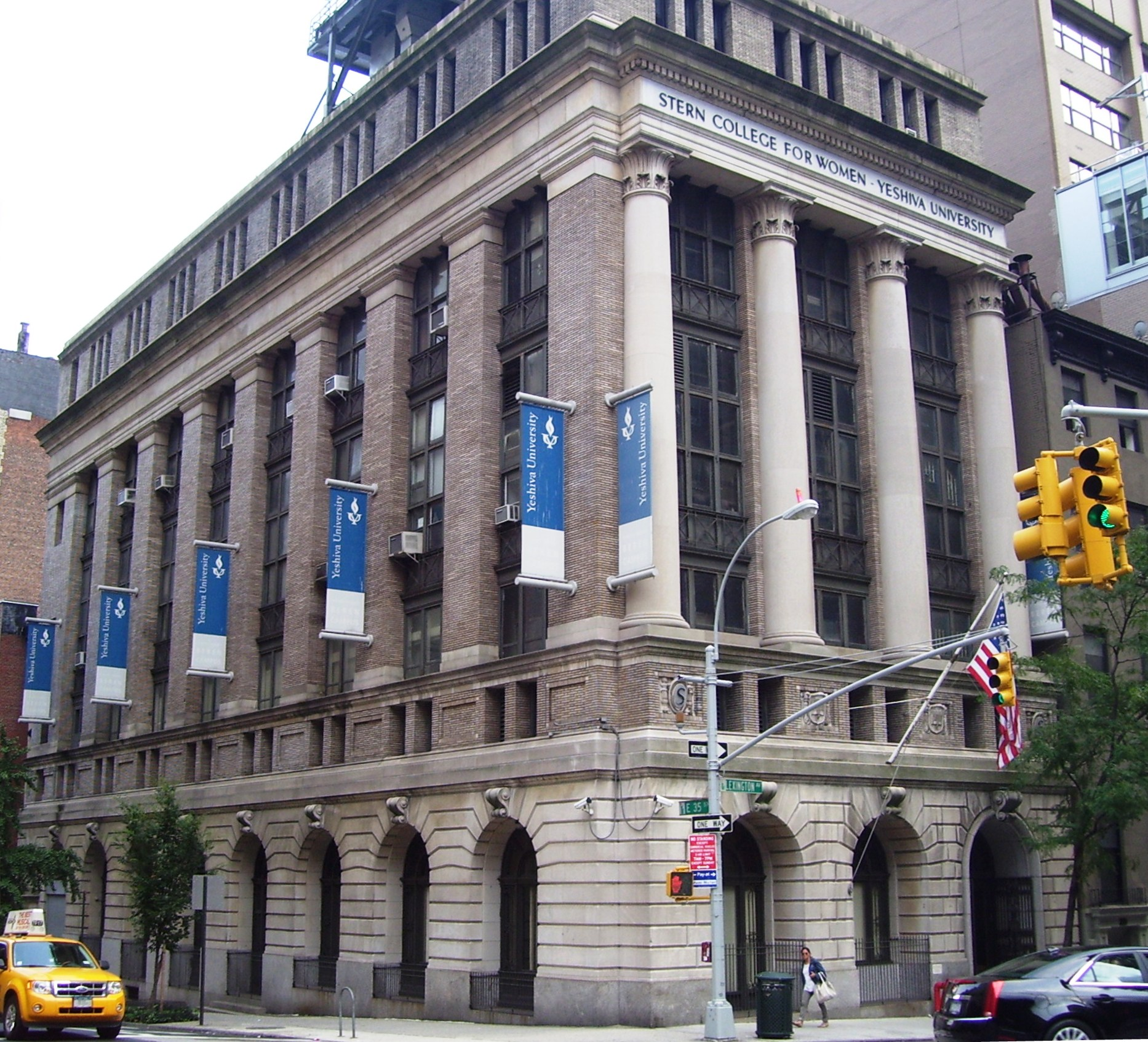 253 Lexington Avenue at the corner of East 35th Street in the Murray Hill neighborhood of Manhattan, New York City, was built in 1911 for the Packard Commercial School – which later became Packard Junior College – at the cost of $250,000. In 1954 it was taken over by Yeshiva University for the inaugural class of its Stern College for Women. (Sources: GIS map, [1], [2])